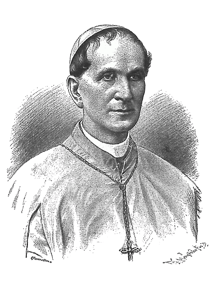 Fulgencije Carev (1826–1901), Croatian monk and bishop